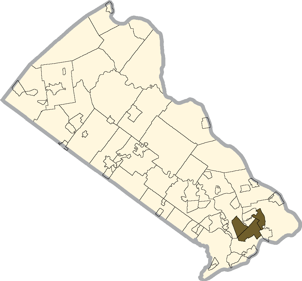 Levittown shaded on the map of Bucks county, PA.